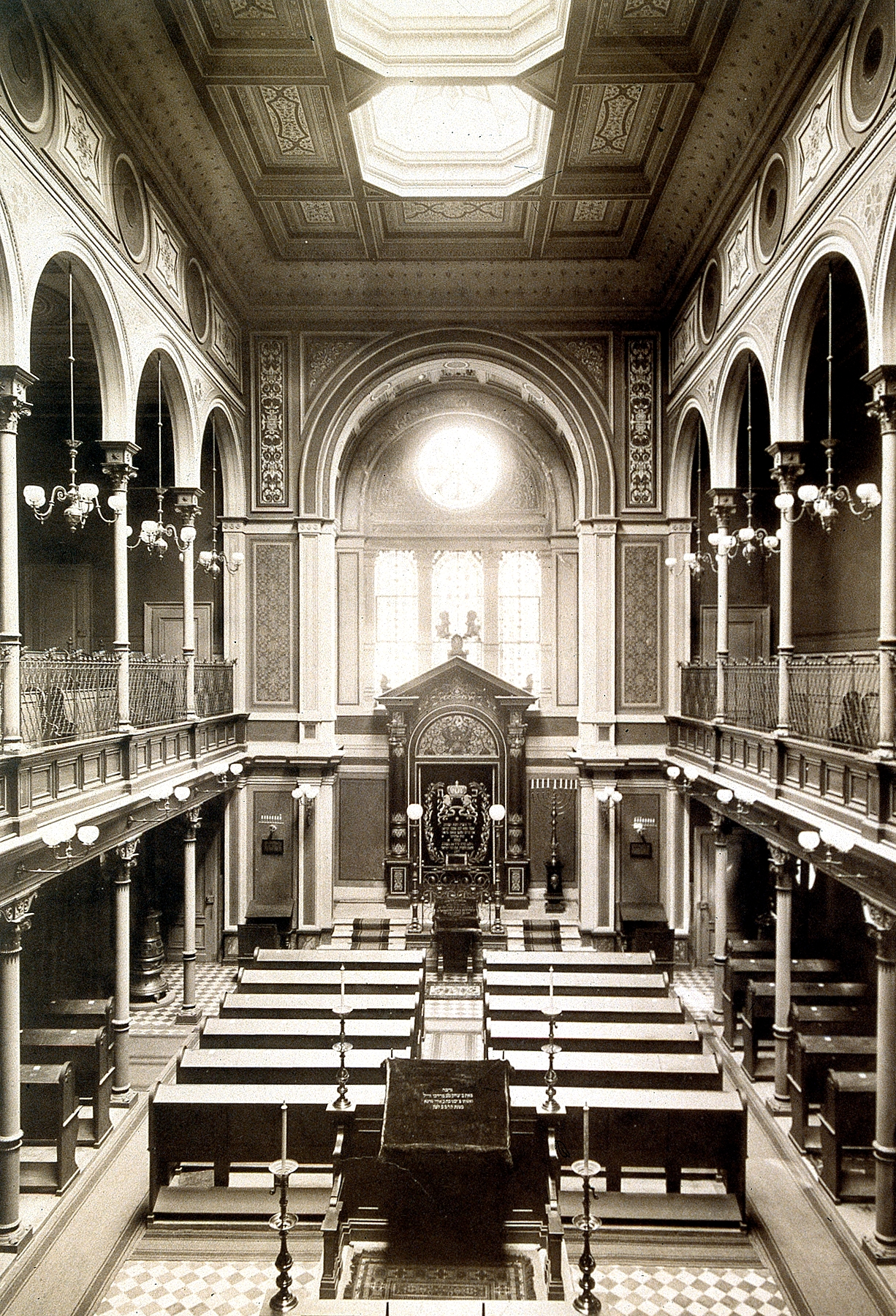 Interior of the Synagogue of Israelitische Religionsgesellschaft Karlsruhe, erected in 1881 and destroyed in 1938.